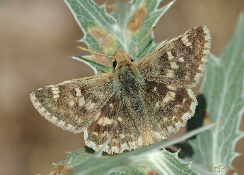 Overside view of a Anatolian skipper (Muschampia proteides). Ivriz, Konya, Turkey.